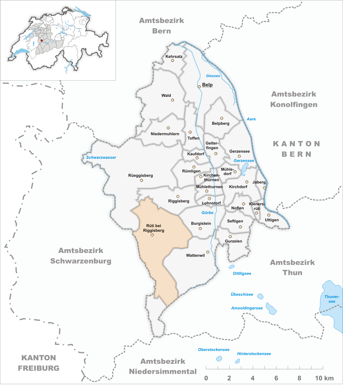 Municipality Rüti bei Riggisberg